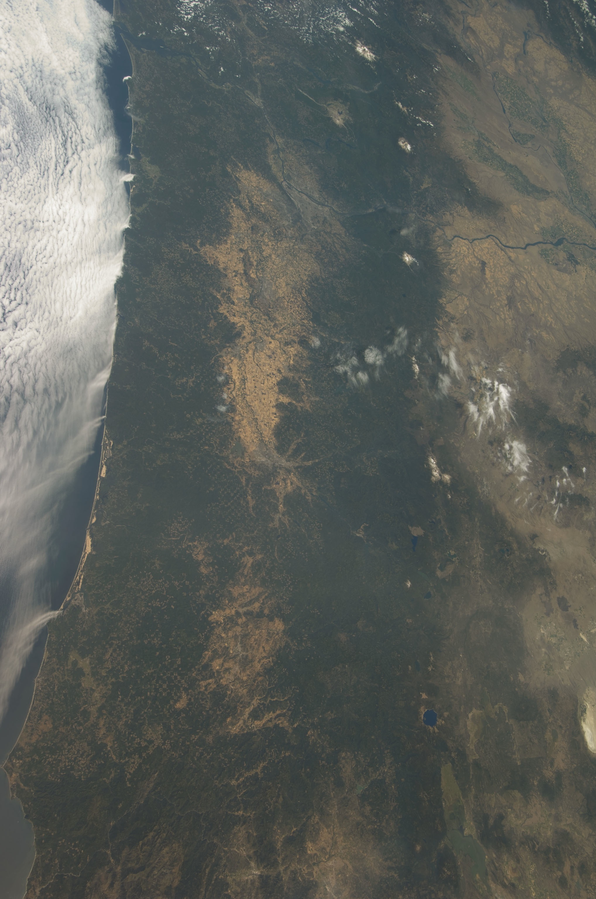 Astronaut image of Western Oregon, southwest Washington, and Northern California with features including the Pacific Ocean, Willamette Valley, Columbia River, and Crater Lake, taken from the International Space Station (ISS)